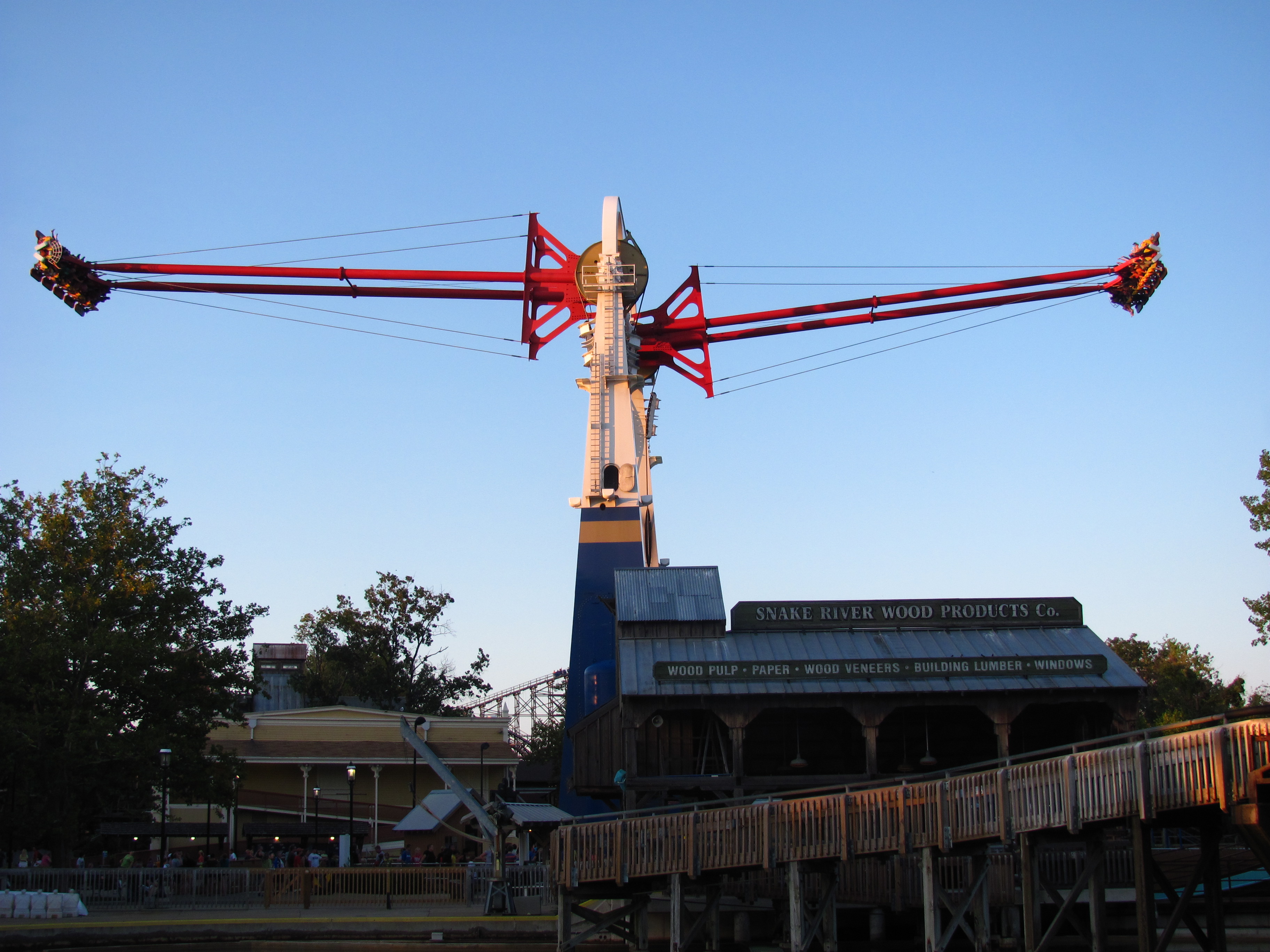 Skyhawk at Cedar Point in full swing.